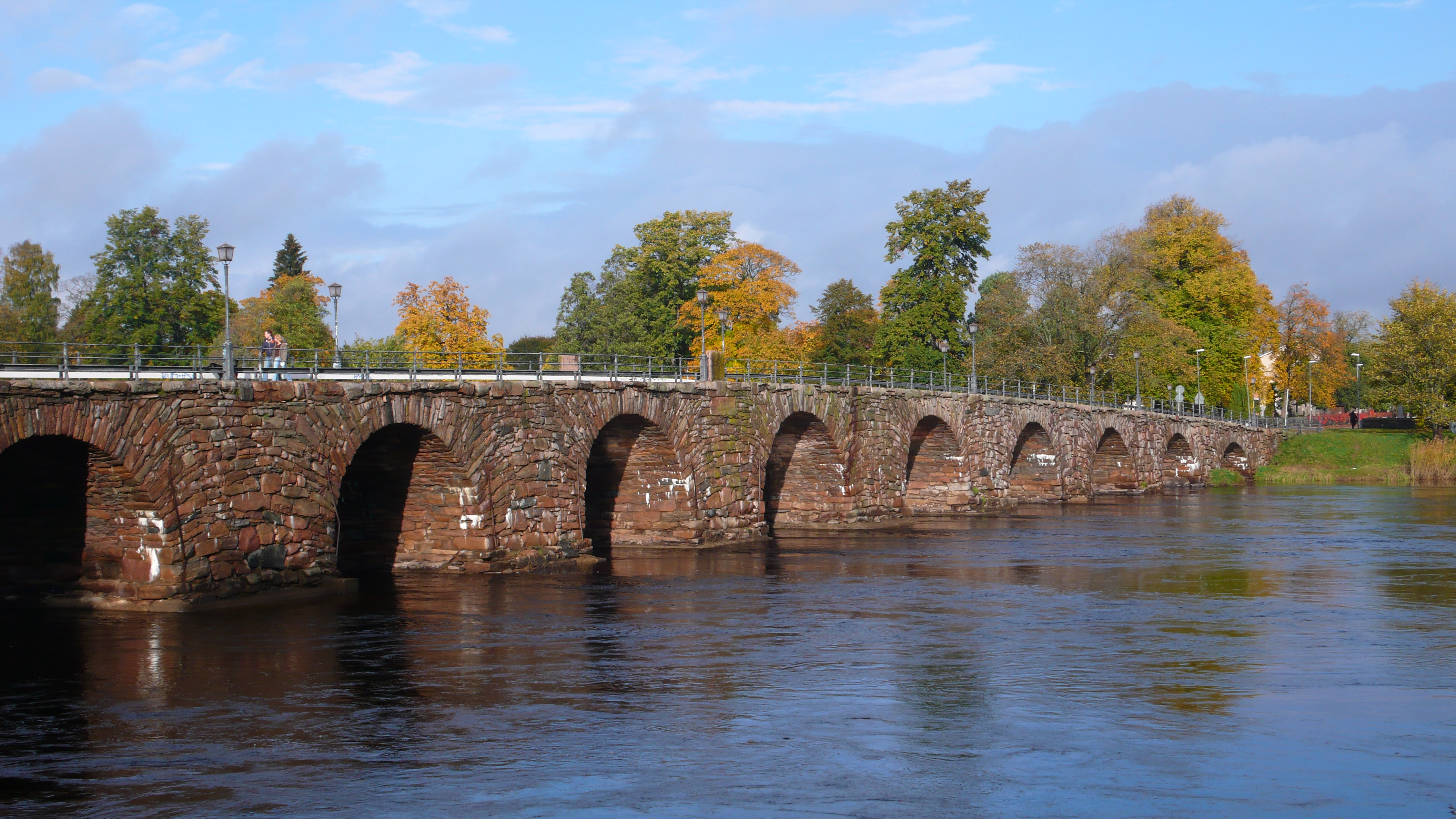 East bridge in Karlstad, Sweden.